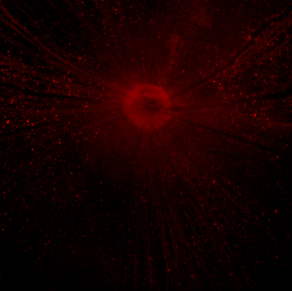 This is a false-color picture taken with a Leica fluorescence microscope of a flat-mounted rat retina at 50x magnification. Dextran Texas-red (fluorophore) was injected into the distal end of the cut optic nerve and allowed to undergo retrograde transport to cell bodies for 24 hours before eye enucleation and dissection. Re-uploaded from my own work as a png file.